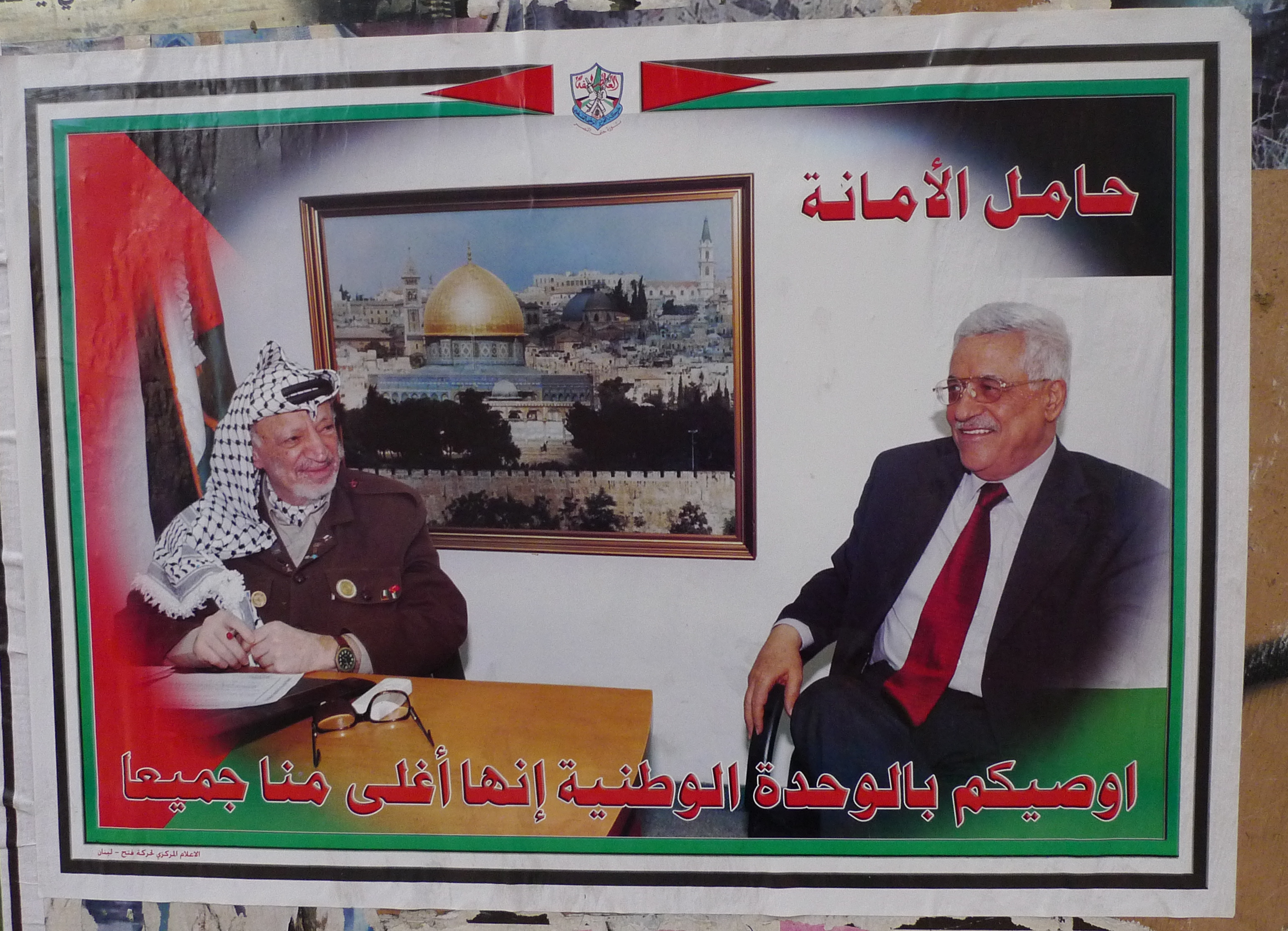 This sign says "Bearer of the Trust" on top (referring to the Palestinian cause). The late Palestinian President Yasser Arafat is handing over the torch to Mahmoud Abbas. On the bottom it reads, "I call on you to hold onto national unity. It is more precious than all of us."